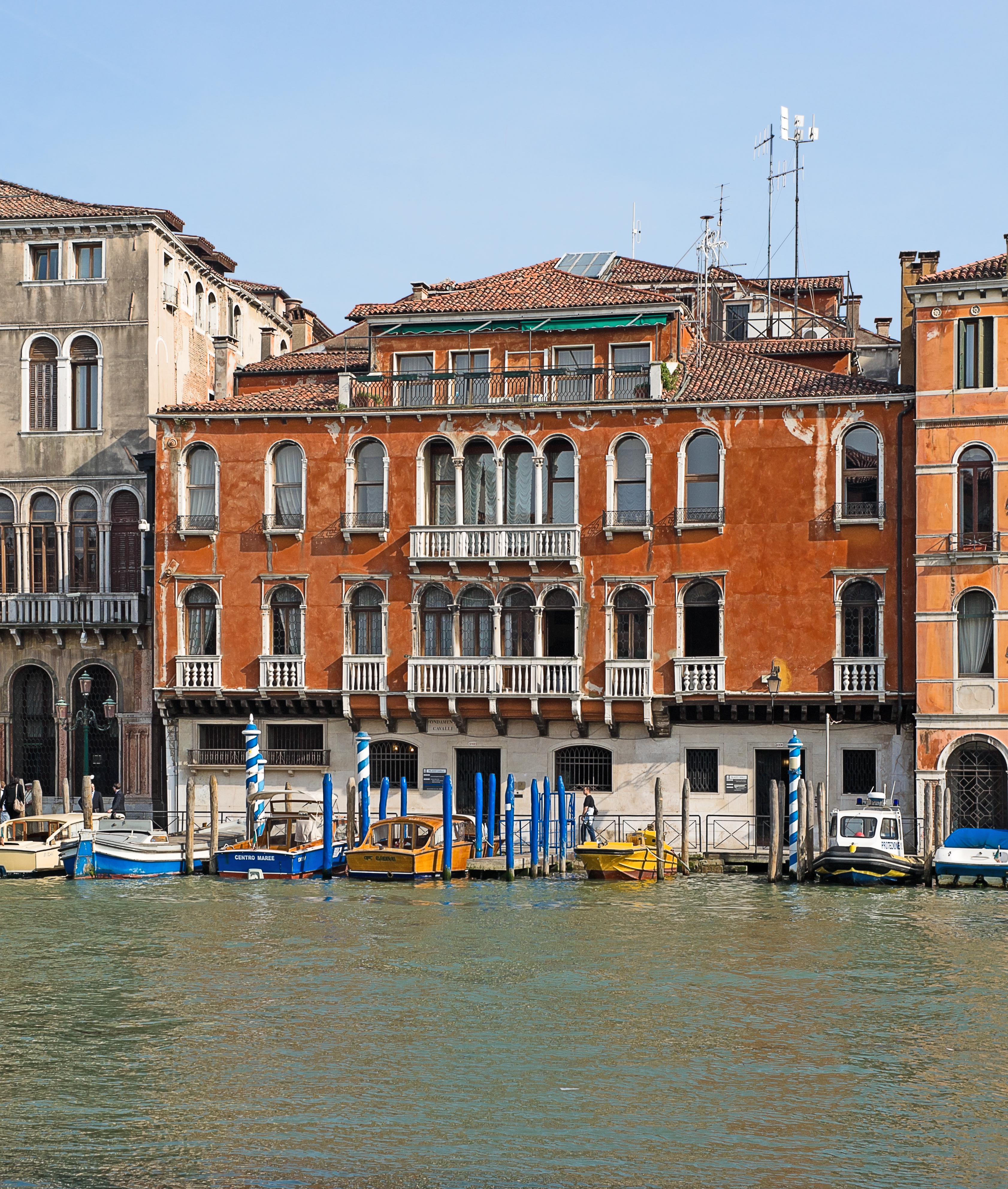 Palazzo Cavalli (or Palazzo Corner Martinengo), Venice . Facade. Palazzo Cavalli is known for having housed, in the nineteenth century, the writer James Fenimore Cooper. It now houses the Tides Center Weather Report and the City of Venice.